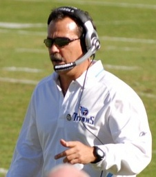 Tennessee Titans head coach on the sidelines during the November 2, 2008 game against the Green Bay Packers at LP Field.